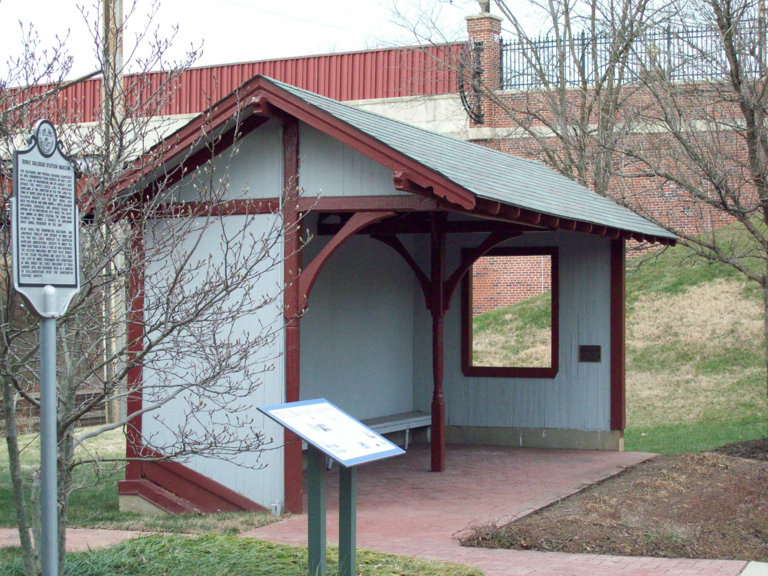 Bowie Railroad Buildings - Passenger Shed, Bowie, Maryland, December 2008